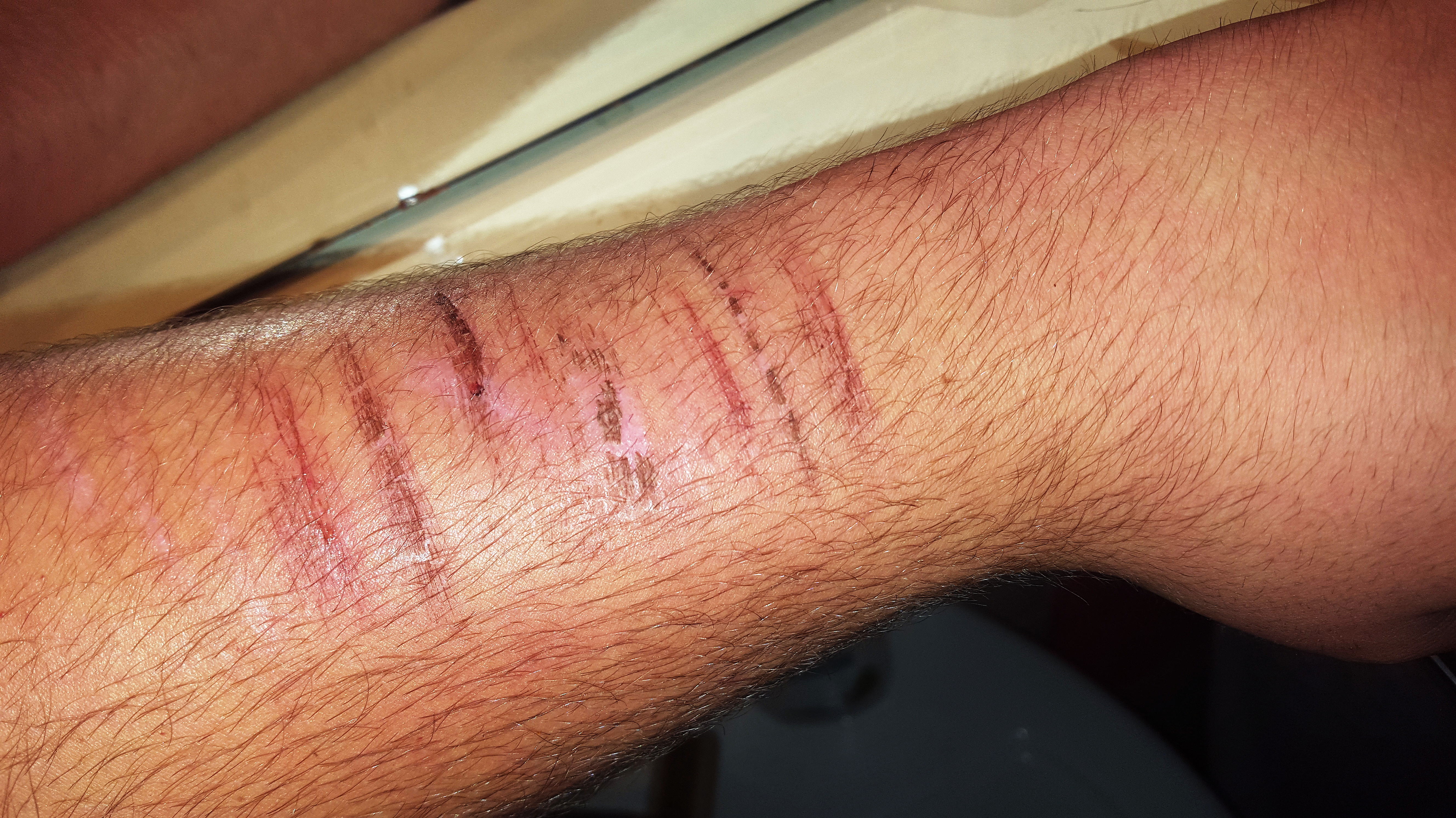 self-inflicted cuts (differend states of wound healing)